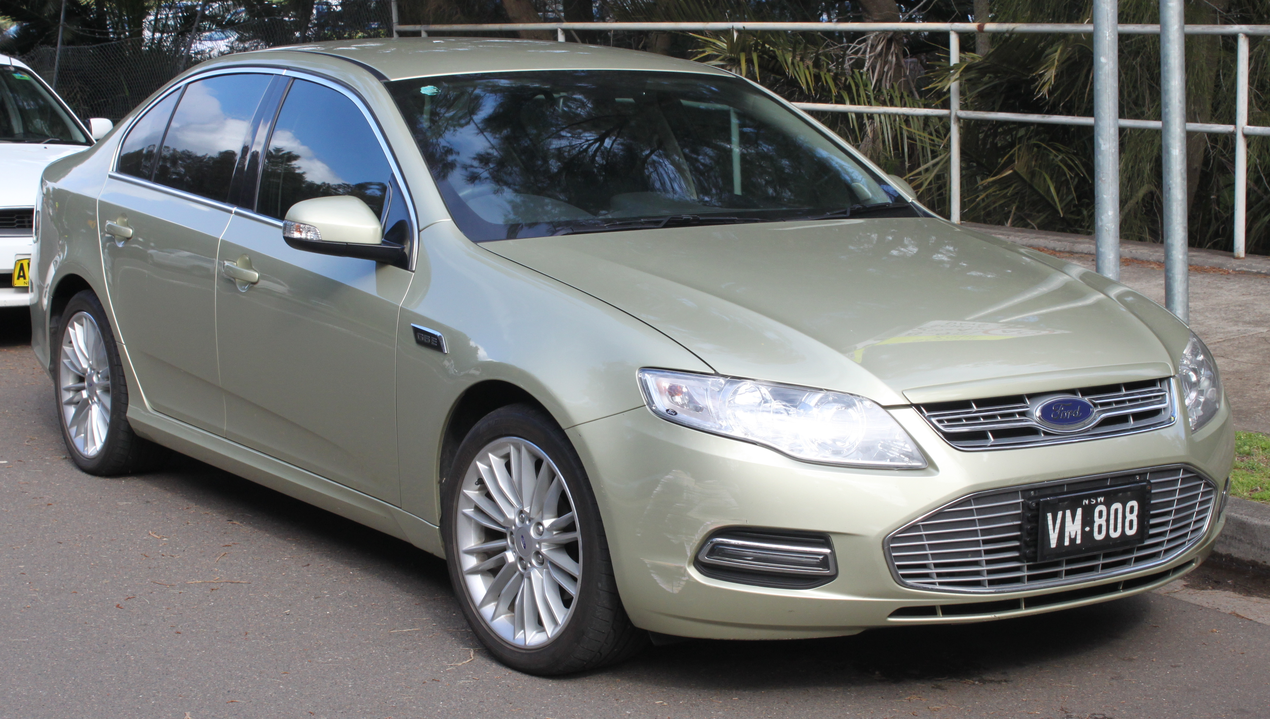 Ford G6E FG EcoBoost